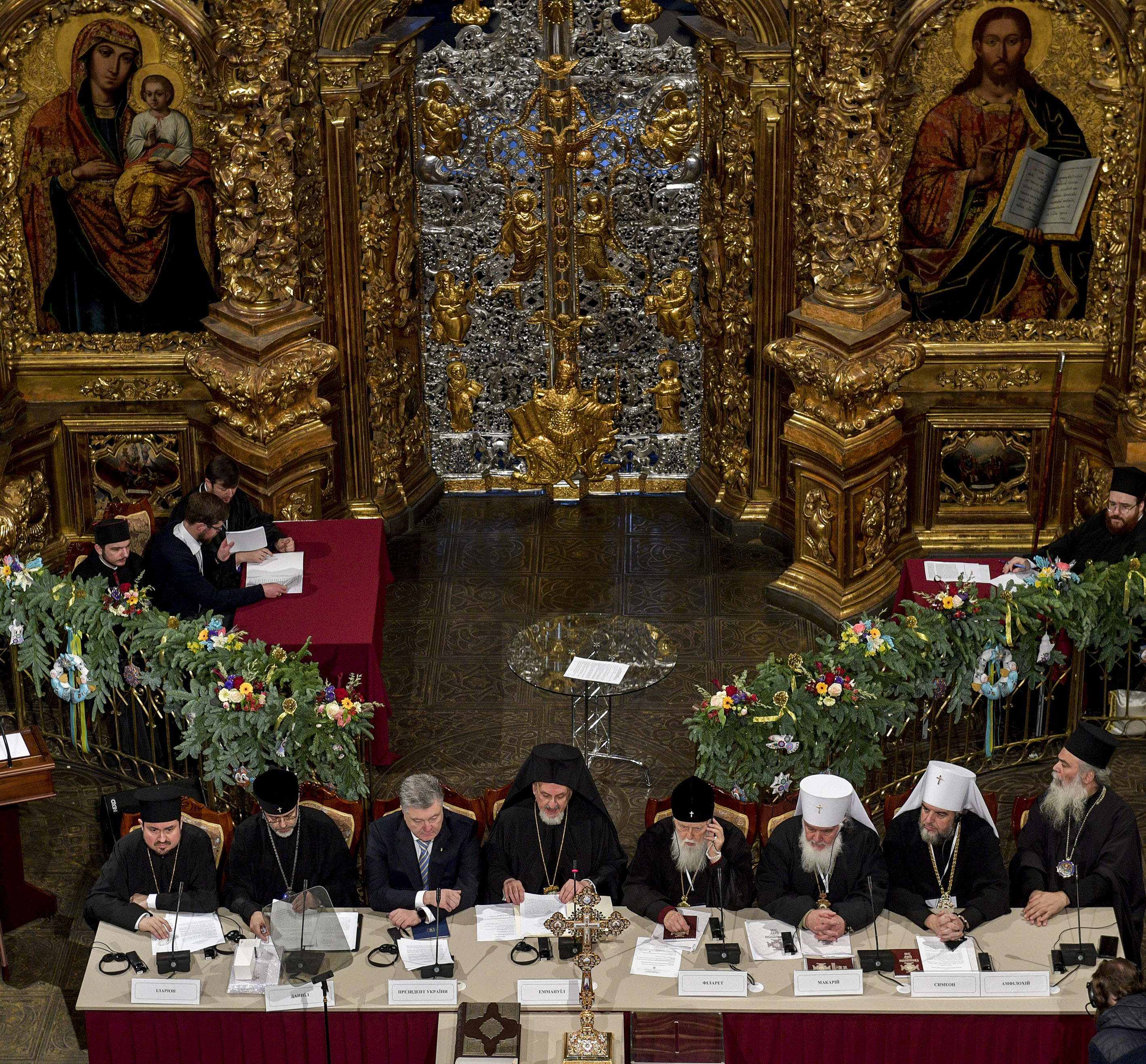 Unification council of Orthodox Church in Ukraine